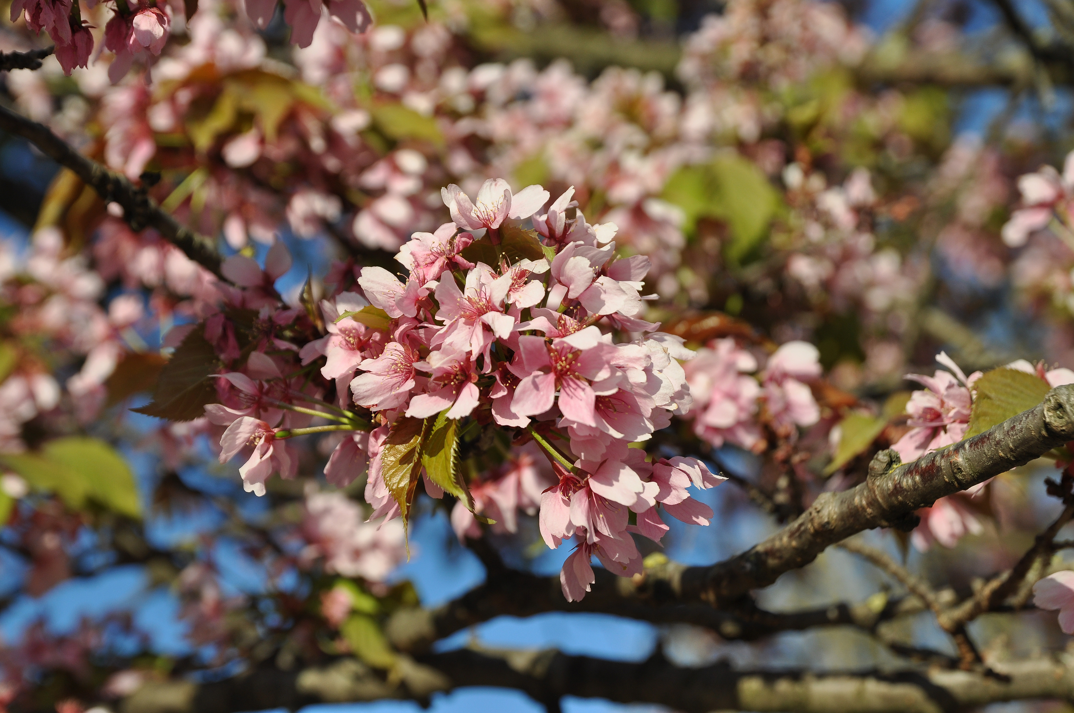 Blossom of Japanese Cherry 'Hisakura' (Prunus serrulata 'Hisakura') in the Jardin des Plantes, 5th arrondissement of Paris.